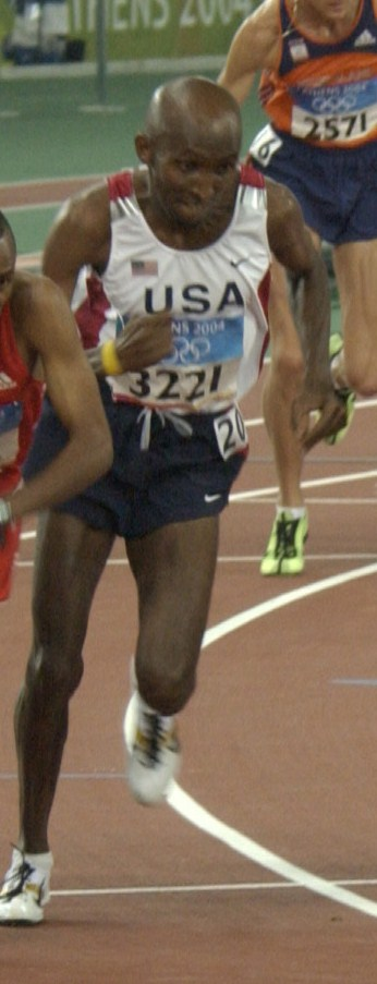 Public domain image cropped to show a particular athlete.